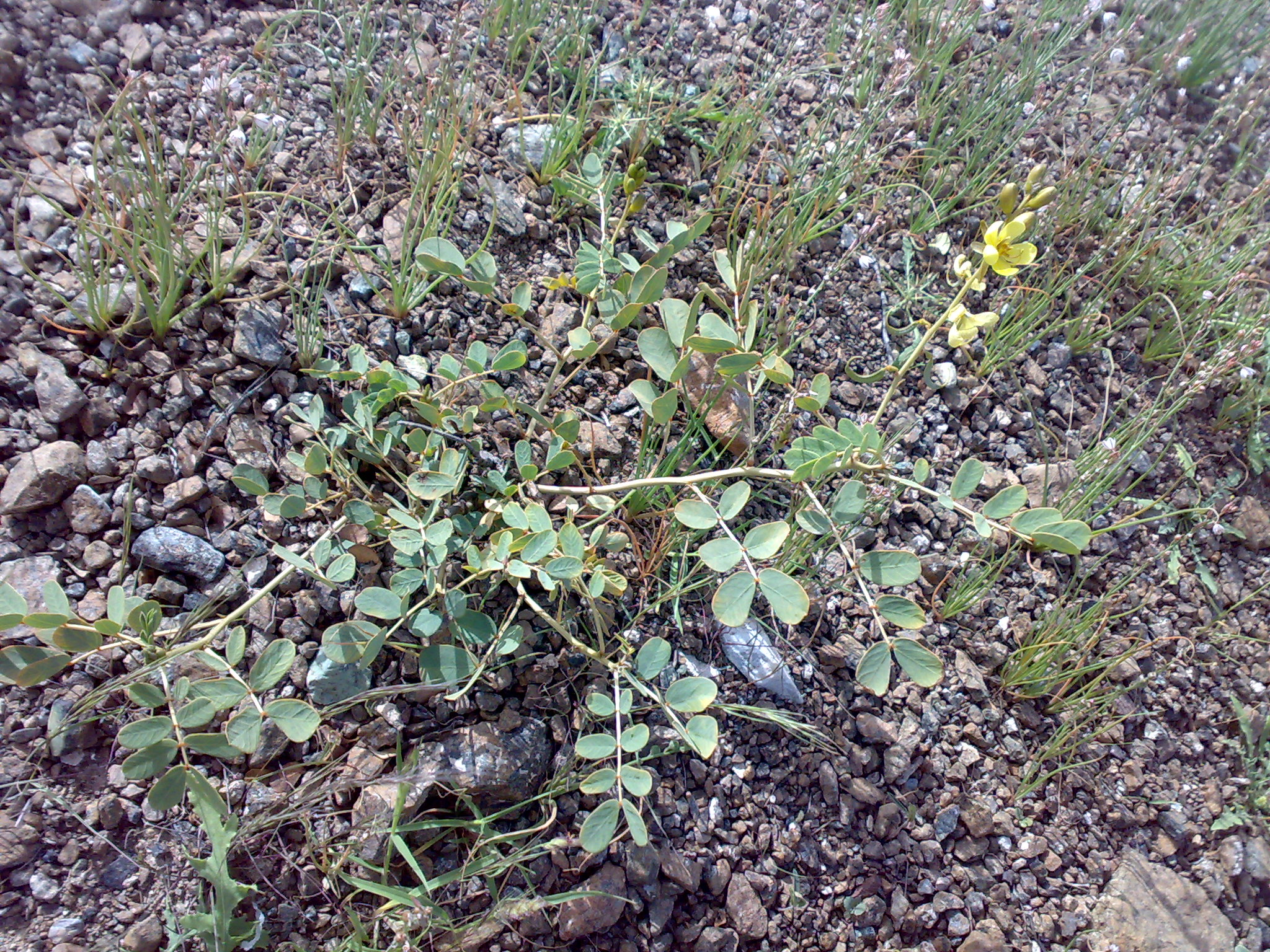 Senna italica, in Sharm-Dadna area, northern Fujeirah emirate, eastern UAE